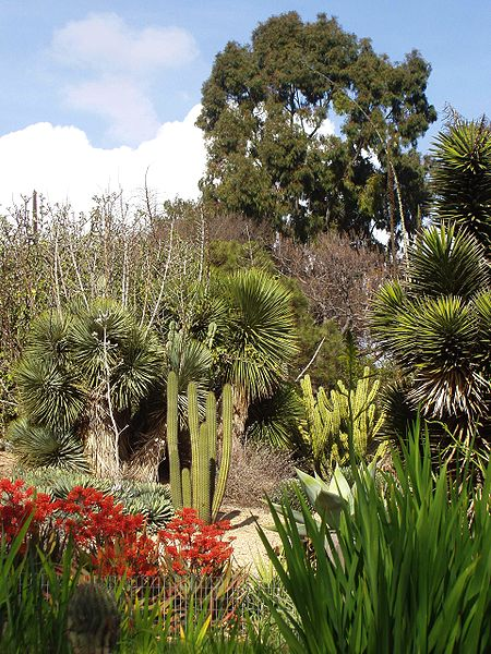 General view of the University of California, Irvine, Arboretum.